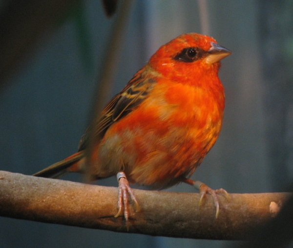 Madagascar Red Fody at Louisville Zoo